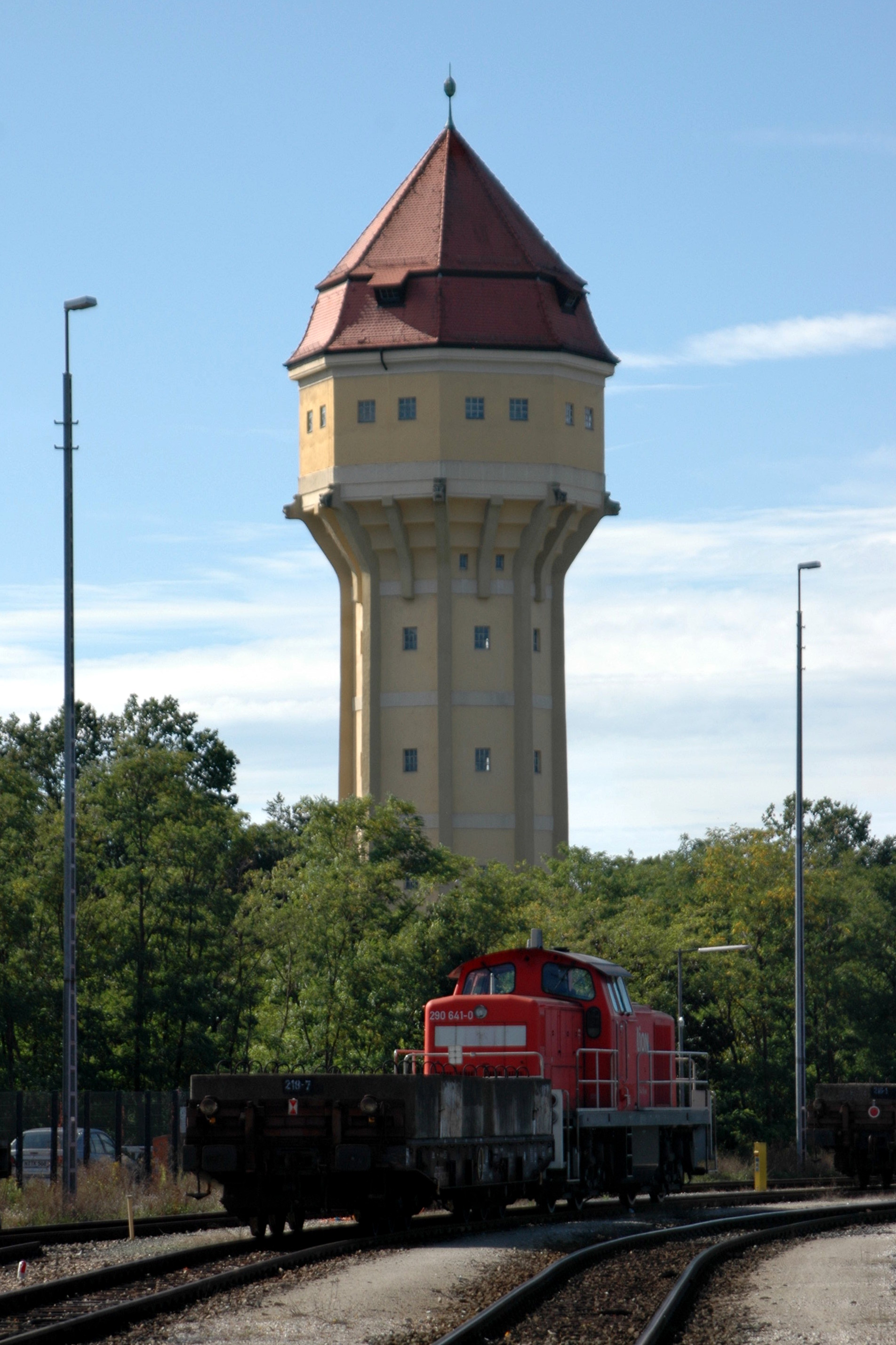 Nuremberg, Wasserturm des Rangierbahnhofs. Wikidata has entry Q41411113 with data related to this item.